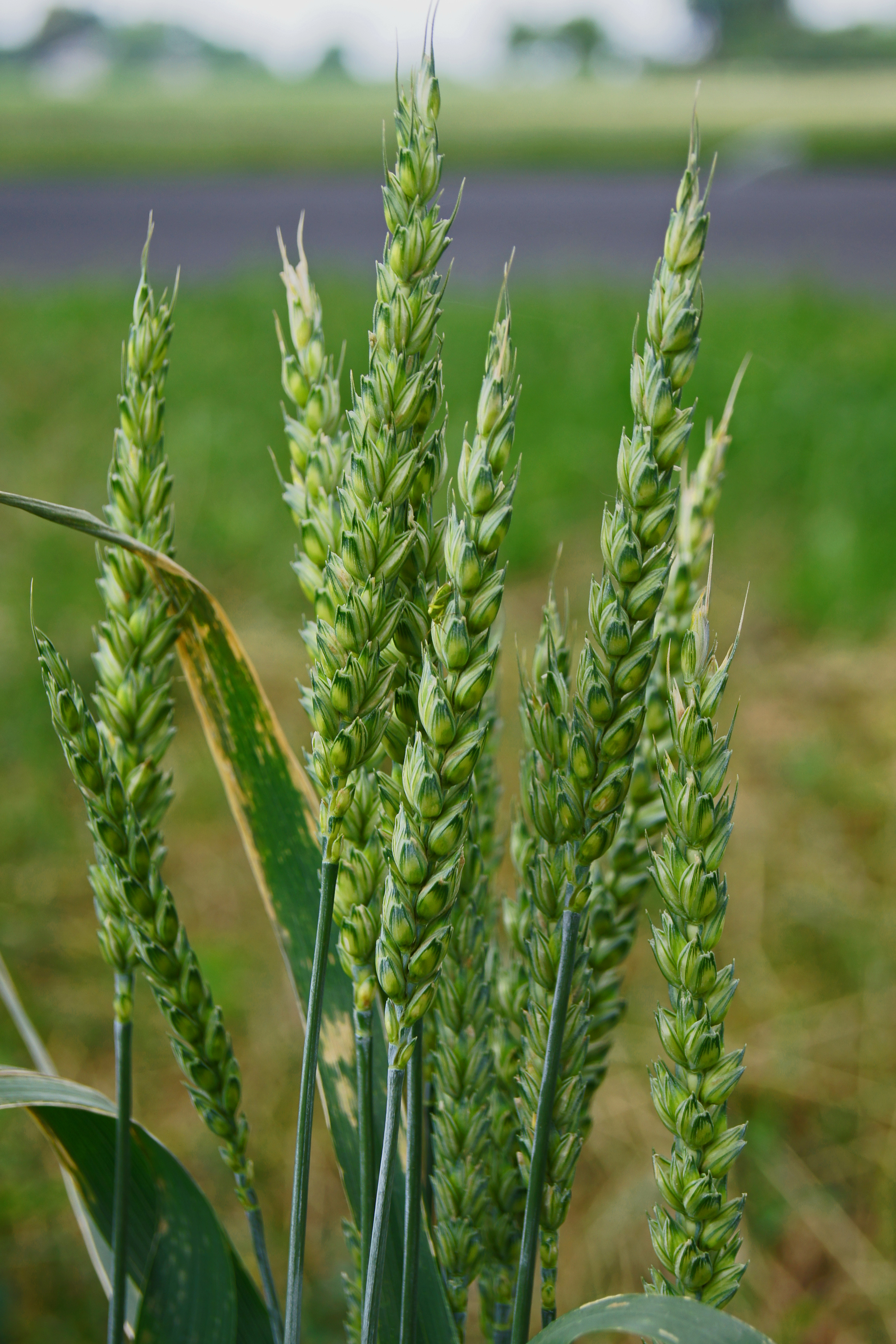 Triticum in Poland.